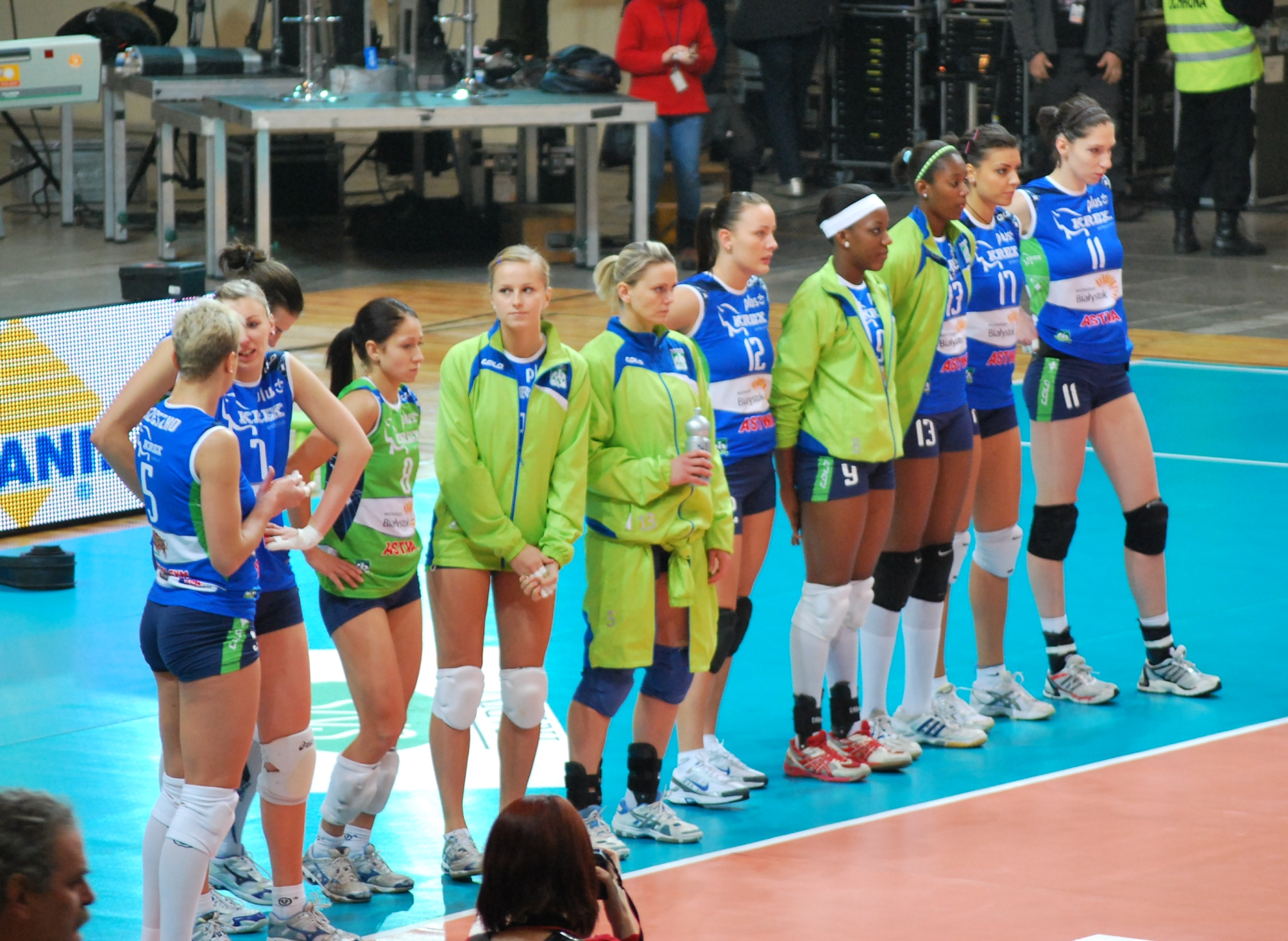 AZS Białystok, polish women's volleyball team